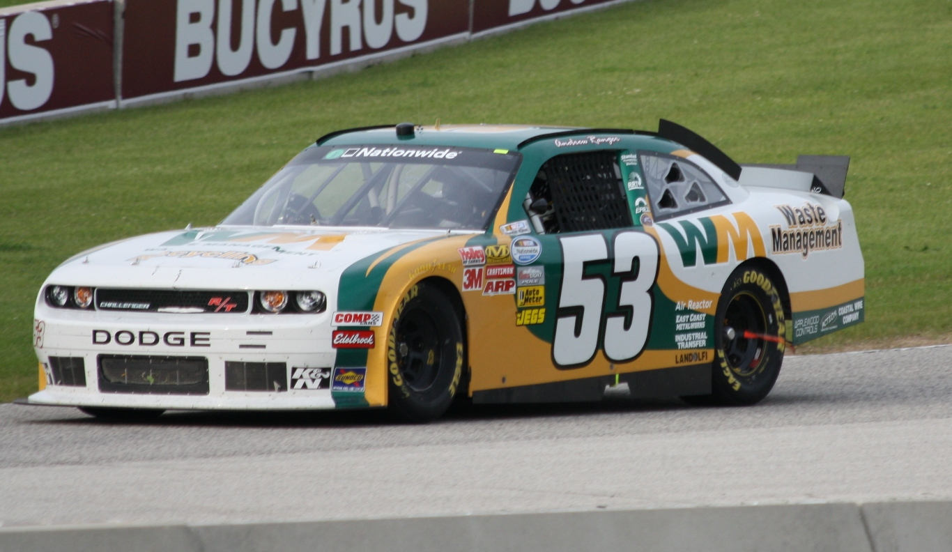 NASCAR driver Andrew Ranger racing his stock car at Road America at the 2011 Bucyros 200 Nationwide Series race.